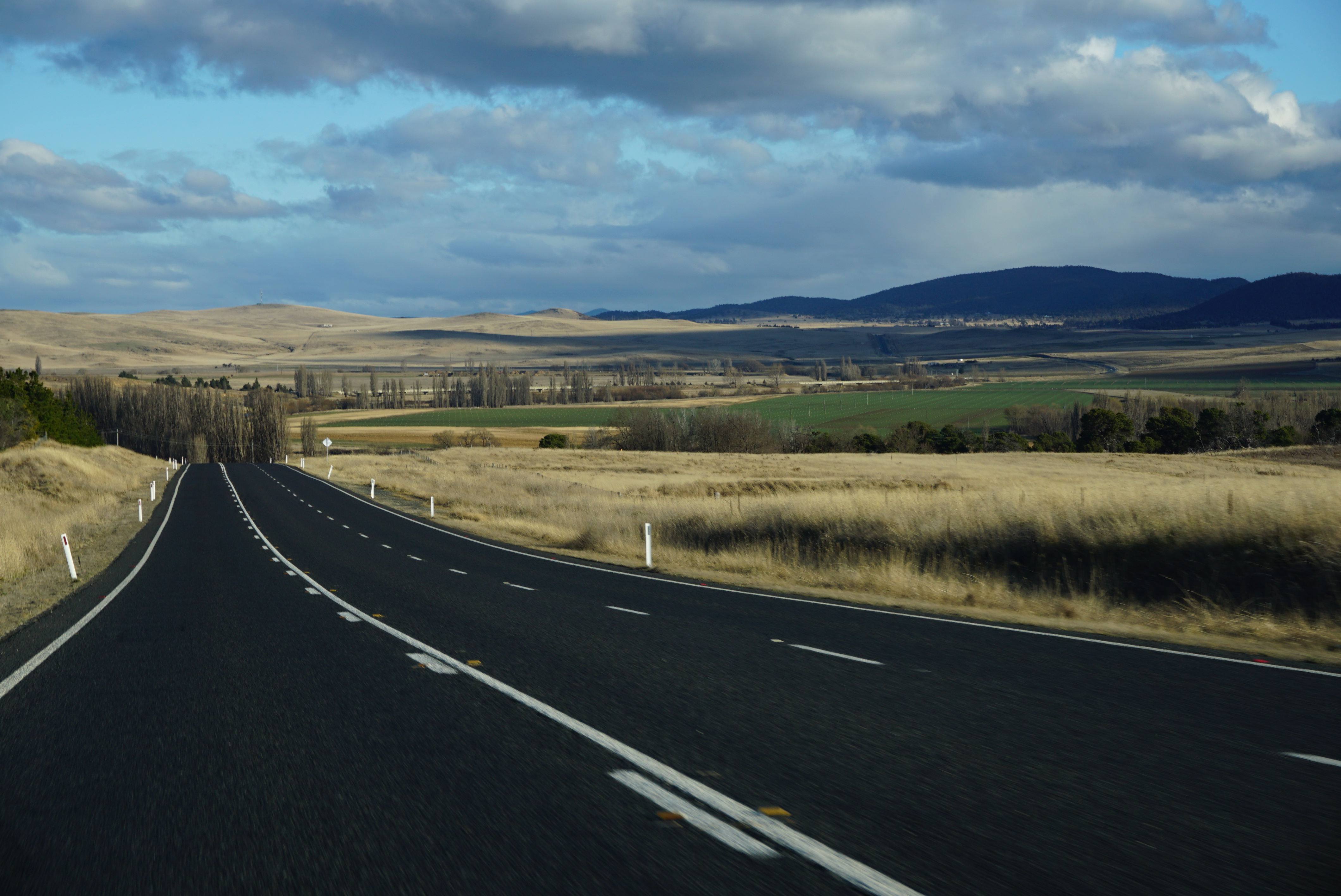 Monaro Highway, New South Wales, Australia